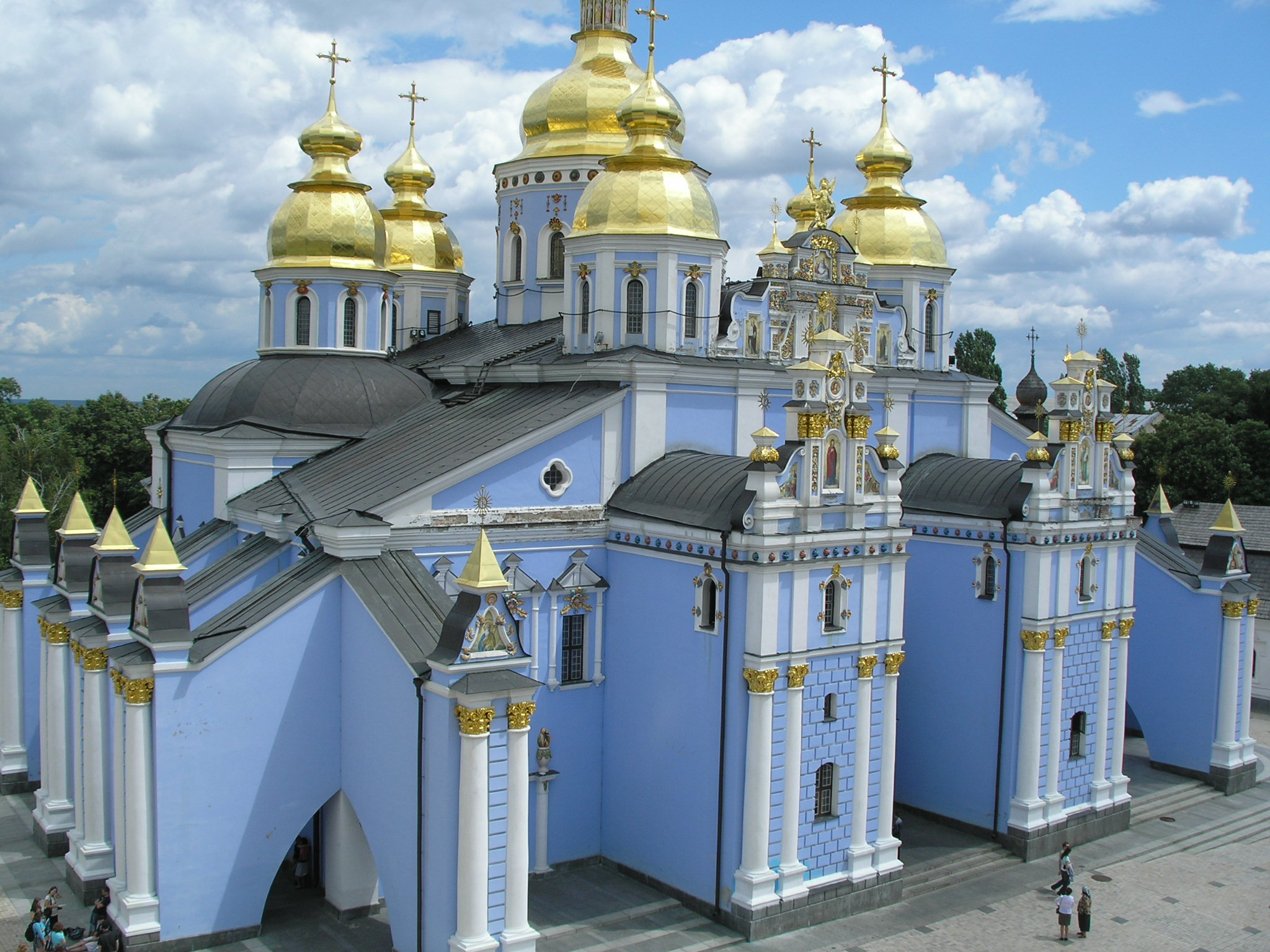 The St. Michael's Golden-Domed Cathedral as seen from the St. Michael's Belltower in Kiev, Ukraine.